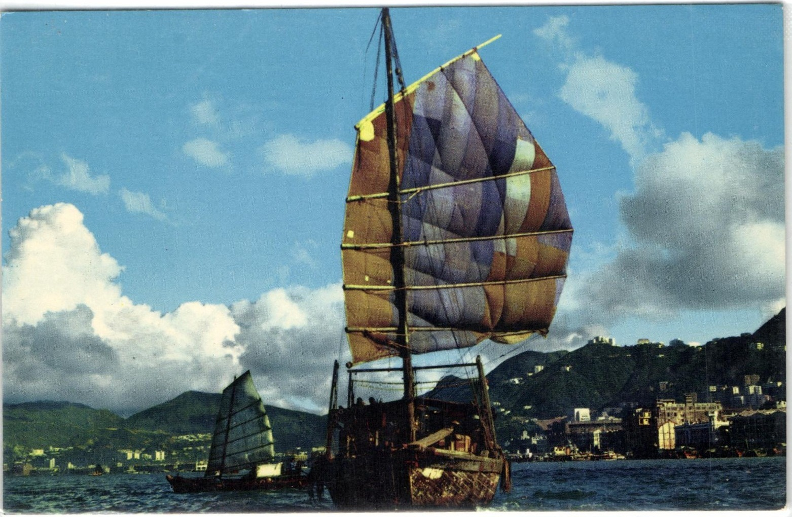 Junk ships in Hong Kong.